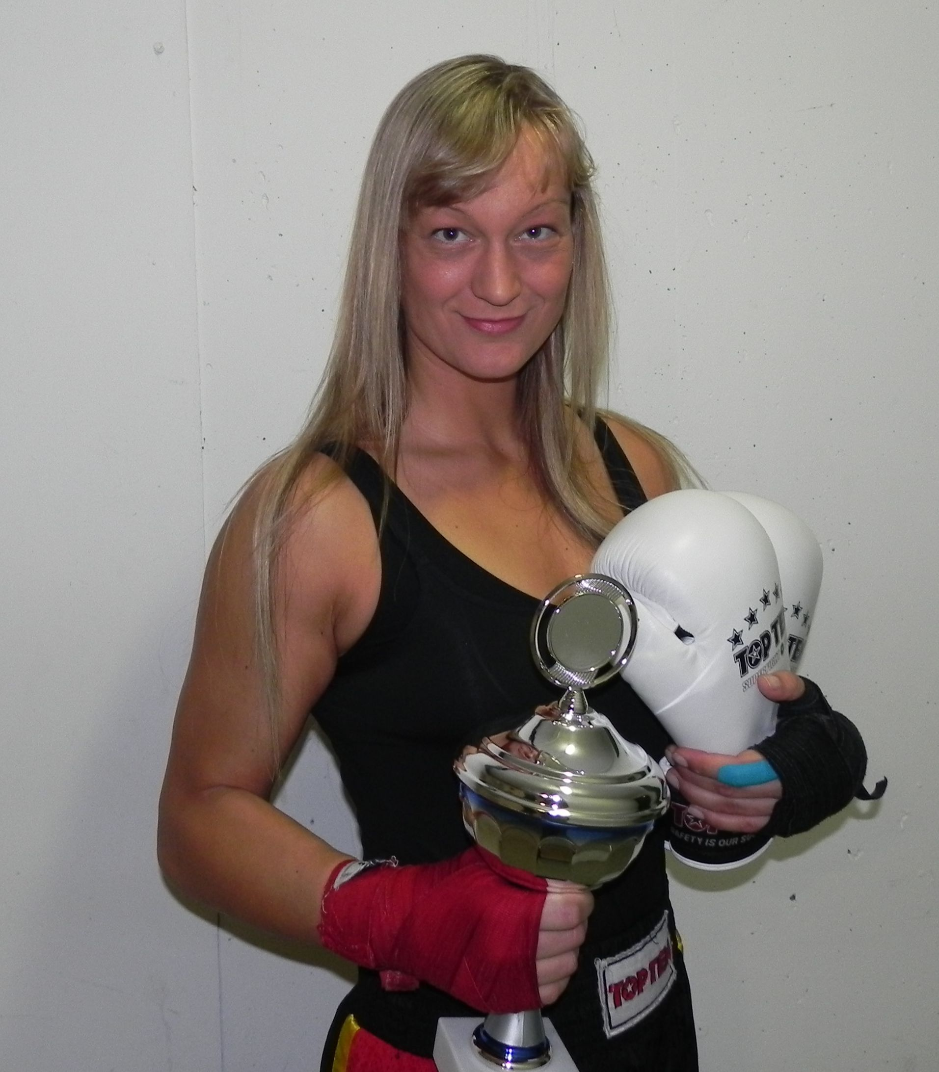 Natalie John, Portrait der Europameisterin im Kickboxen WAKO 2010